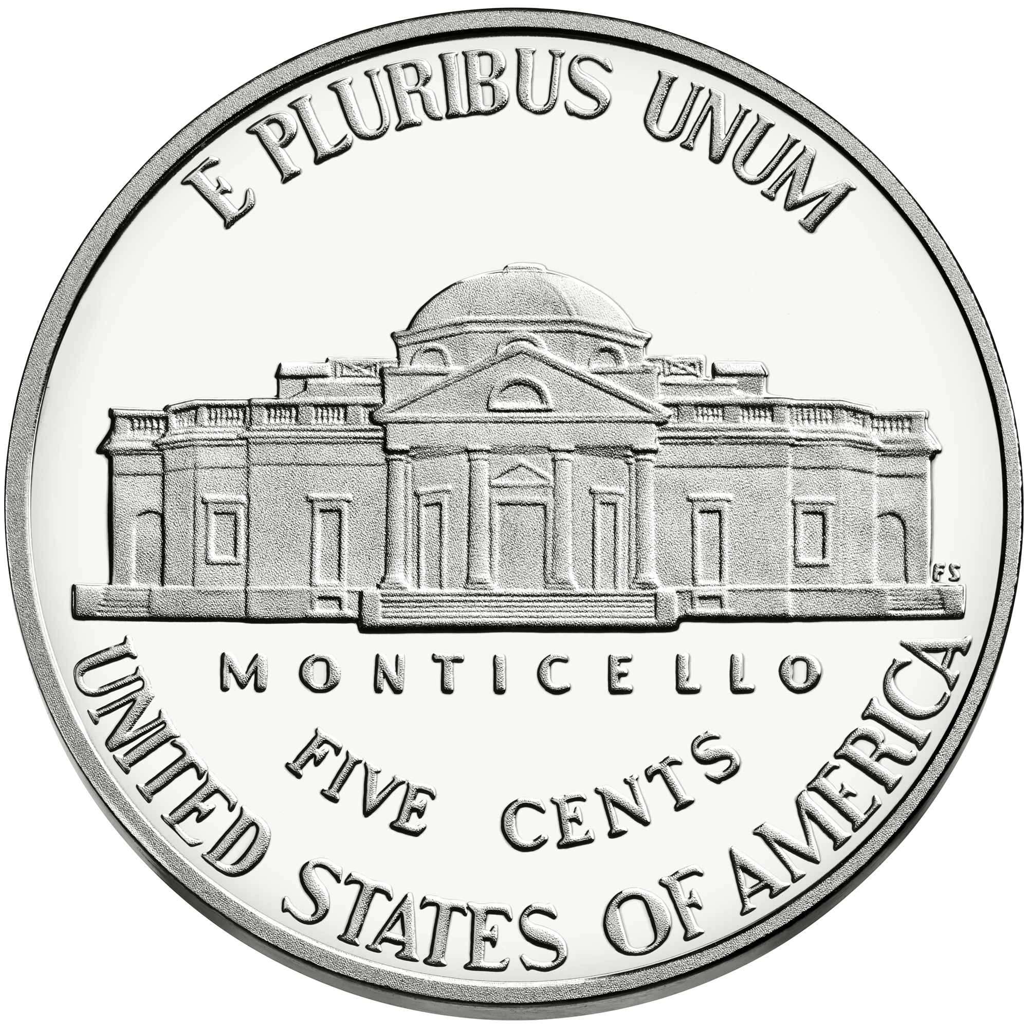 United States Five Cents Reverse